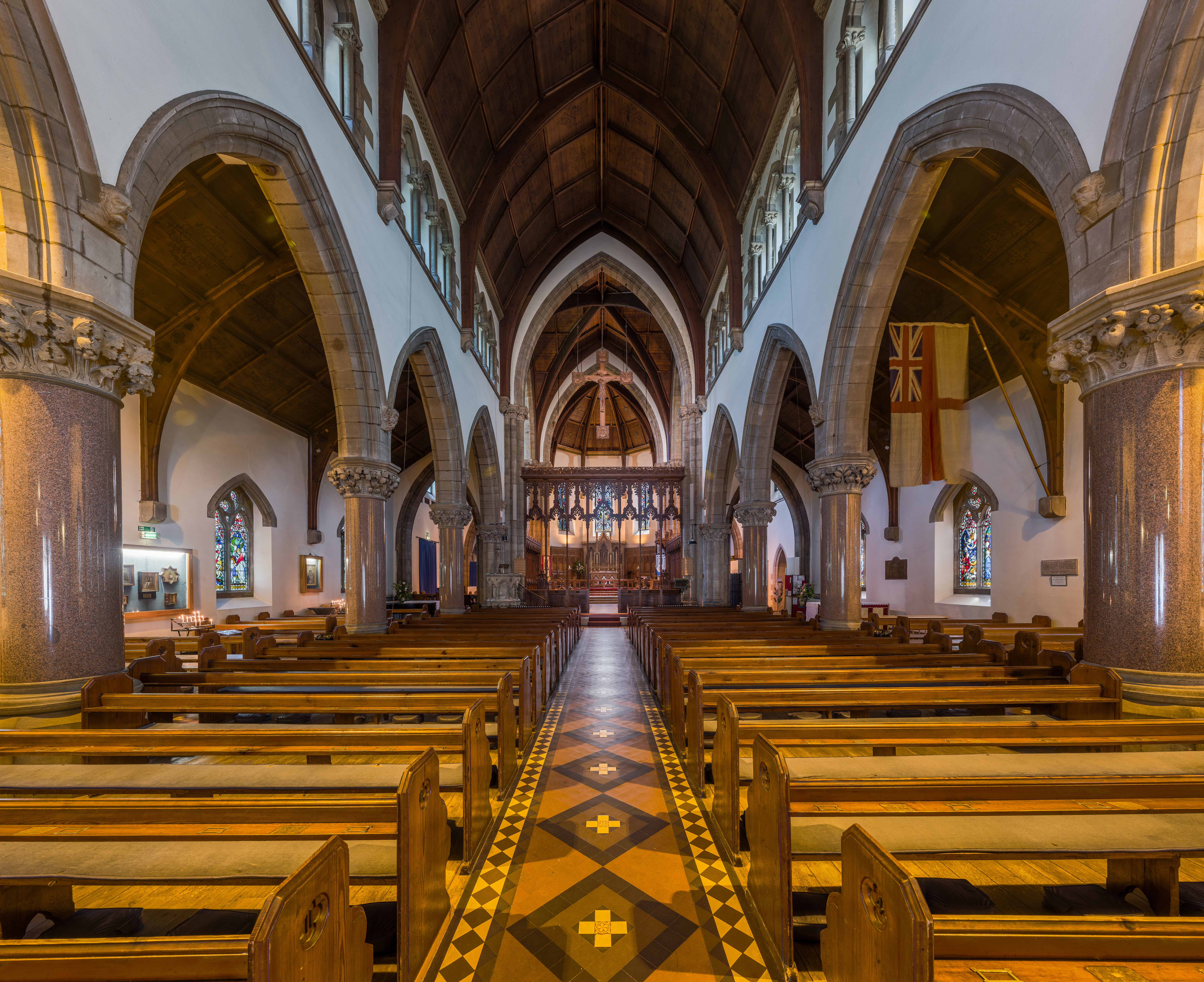 Inverness Cathedral's nave looking south towards the choir and altar in Scotland, UK.